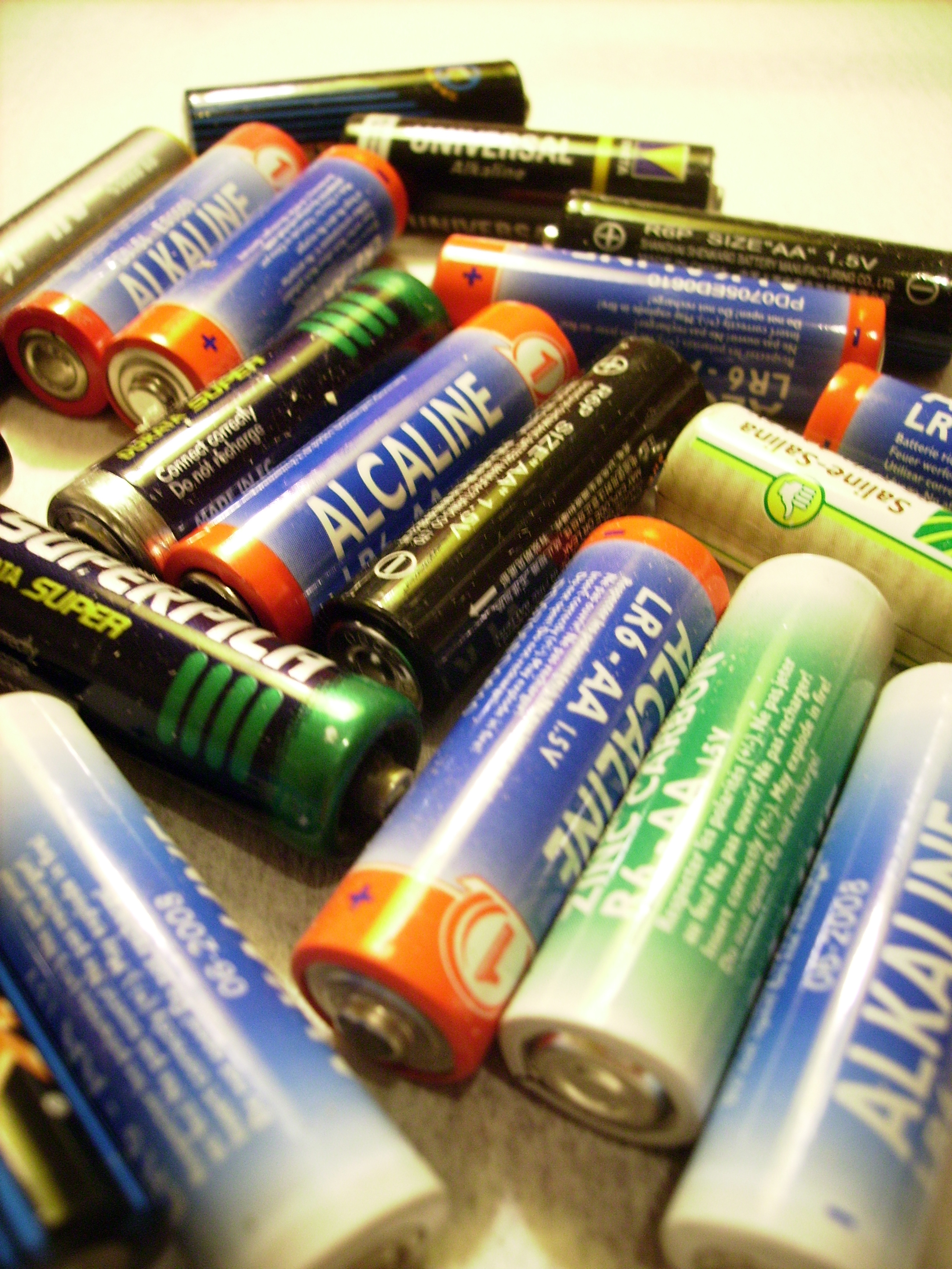 This is a picture of standard batteries (LR6) which are used every day. You can see alkaline and saline batteries, two technologies both used around the world. The shot has been taken with a compact digital camera in my bedroom whith few elements. Batteries are lying on a white sheet of paper and a small lamp gives the light. This image of a group of batteries was taken on January 25th and is my own work. I did it for a work I had to do in Physics (about Daniell battery). I added it in commons to put in an article in the French wikipedia but I will enjoy to see it useful.